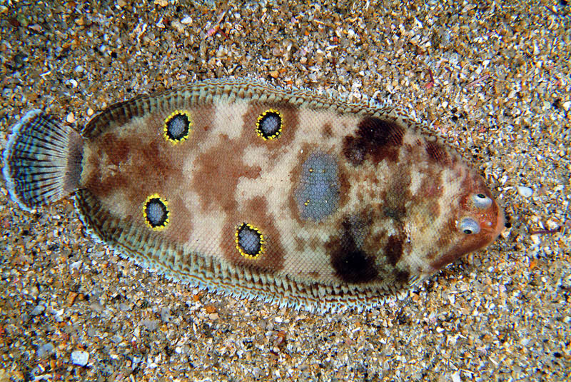 Microchirus ocellatus photographed near Giglio Island (Tuscany, Italy). Depth: 12 m. Photo by Stefano Guerrieri.